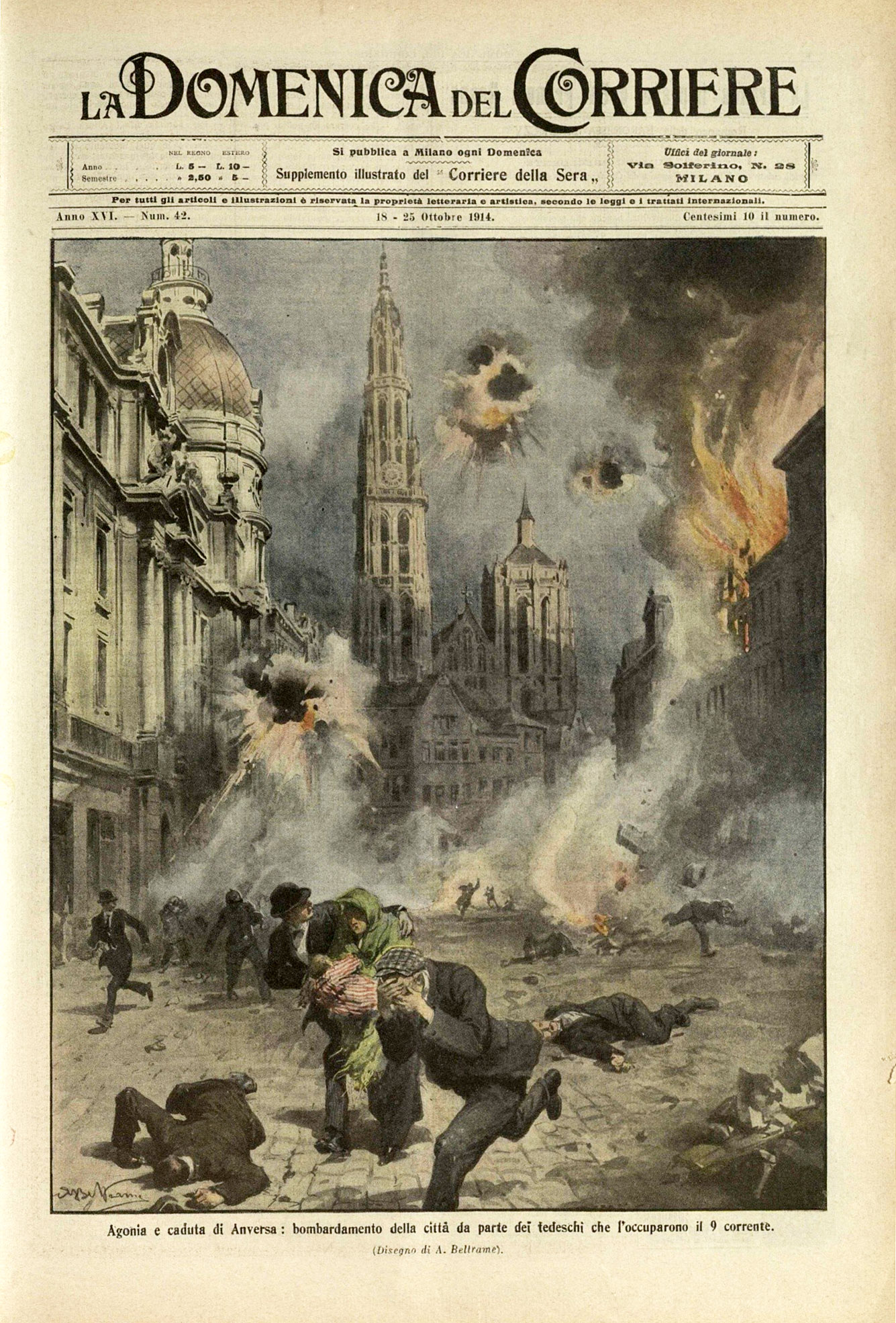 Scan of the first page of the edition of the "La Domenica del Corriere", an Italian magazine, with a drawing of Achille Beltrame depicting the Siege of Antwerp (1914)